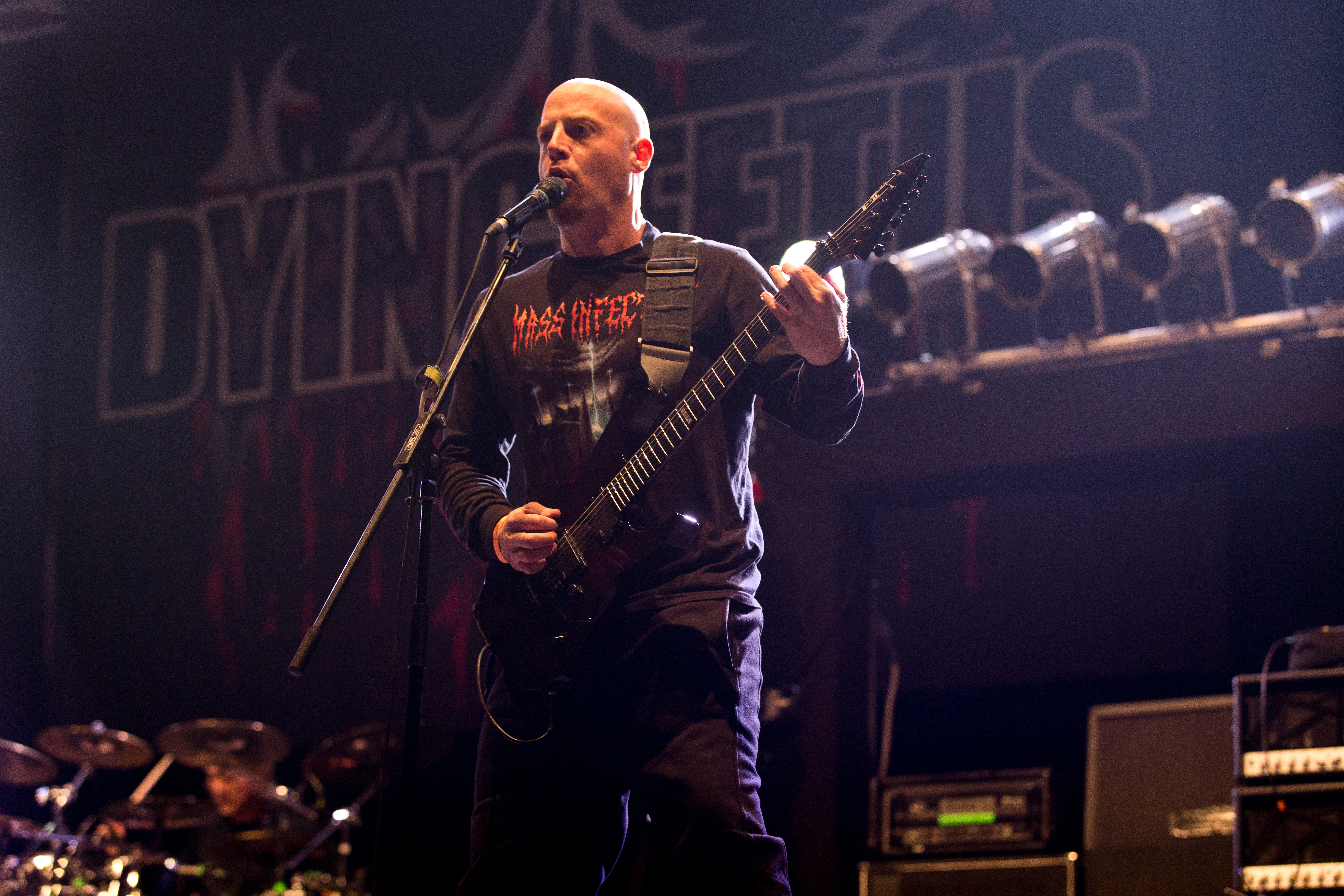 The American death metal band Dying Fetus at the Party.San Metal Open Air 2016 in Obermehler-Schlotheim/Germany.